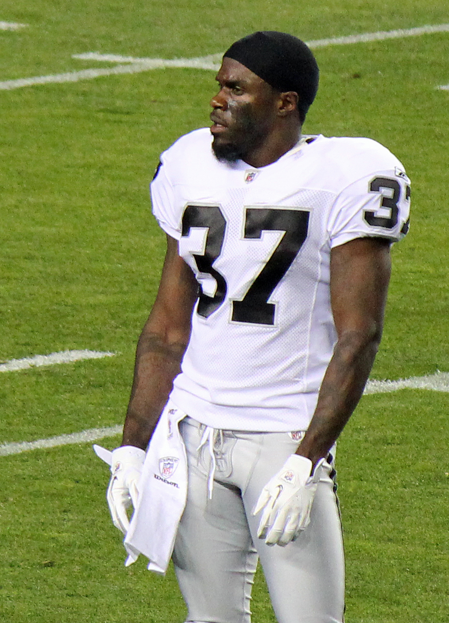 Chris Johnson, a cornerback on the National Football League.